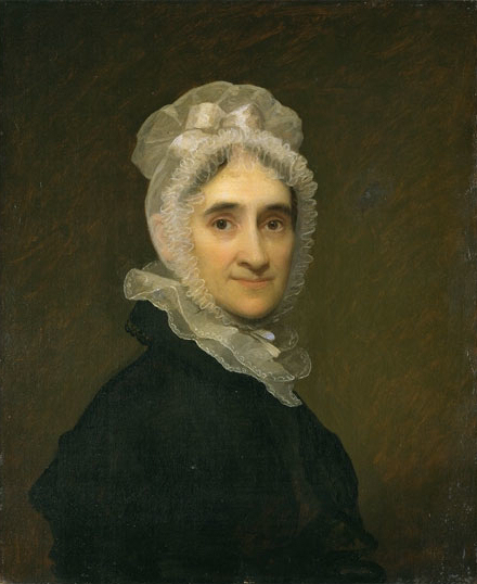 Elizabeth Albree Brooks (Mrs. Jonathan Brooks)